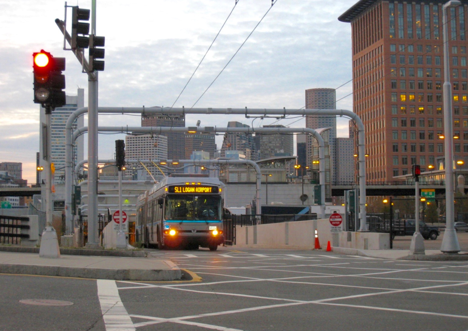 A Silver Line (MBTA) dual-mode trolley bus emerging from tunnel and about to cross D Street in Boston.